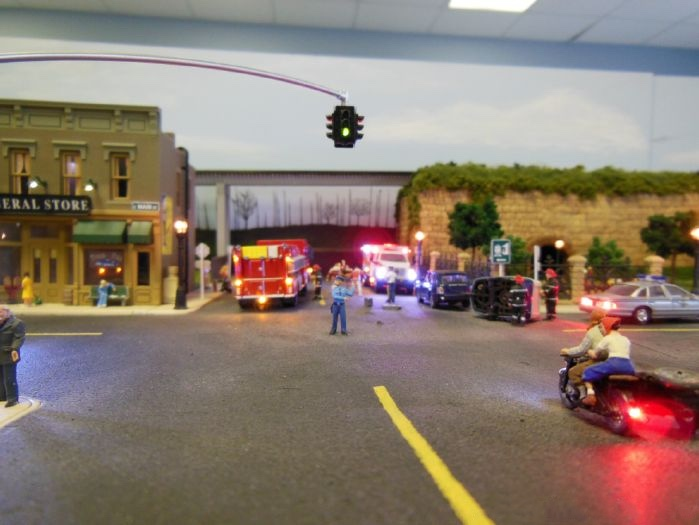 Picture from the Station 187 Model Railroad Club Layout